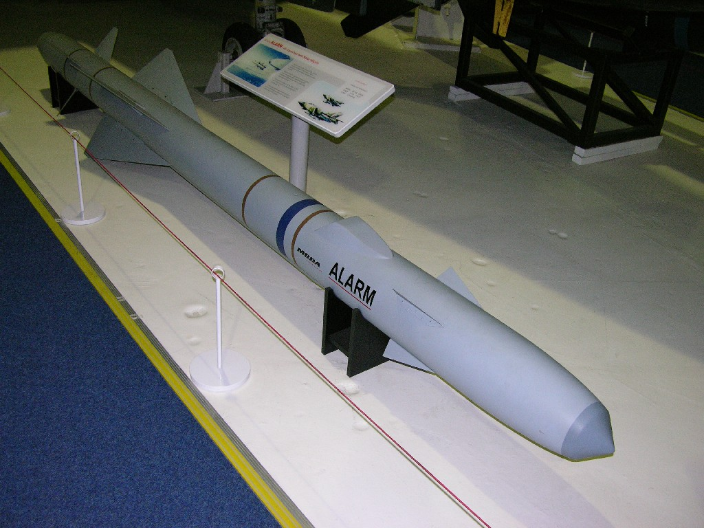 ALARM - Air Launched Anti Radiation Missile - display at R.A.F. Museum Hendon - London